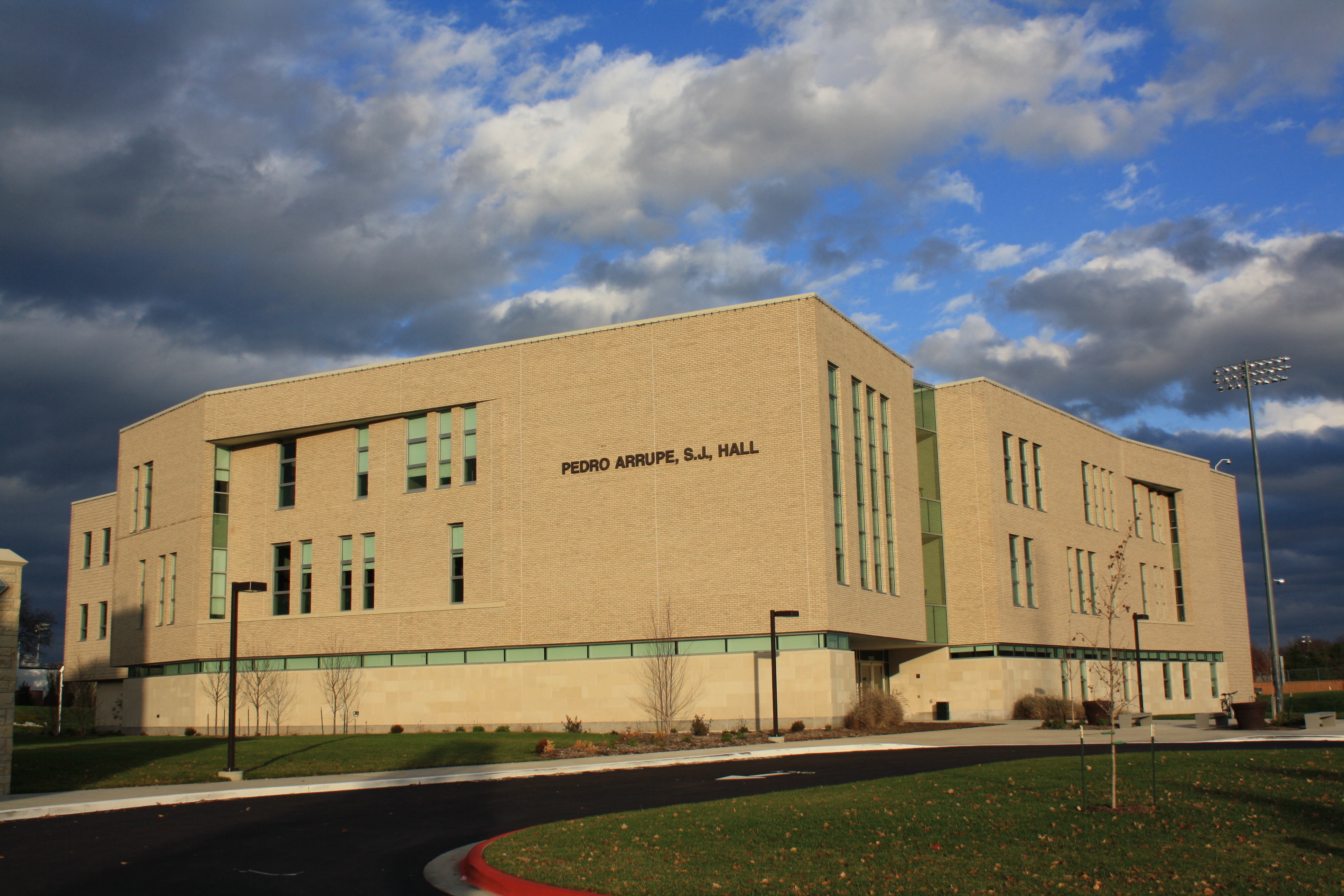 Arrupe classroom and office building at Rockhurst University, Kansas City, MO, USA